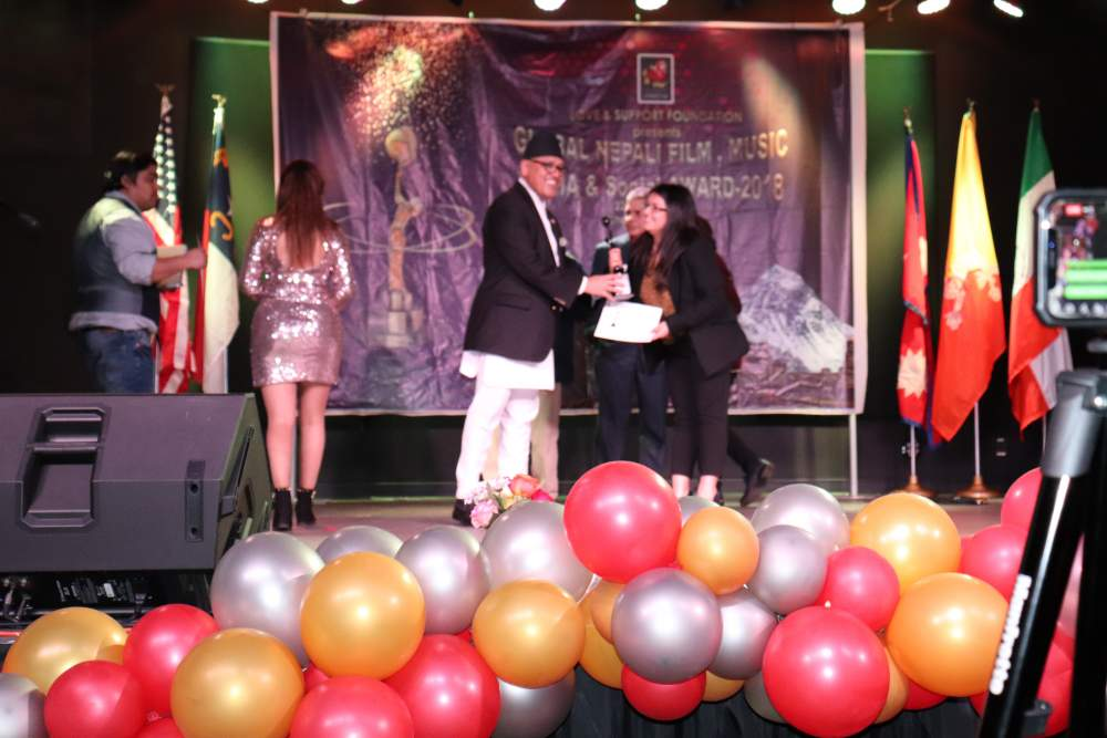 Anita Silwal receiving Global Nepali Film, Music, Media & Social Award from Nepali Ambassador to US - December 2018